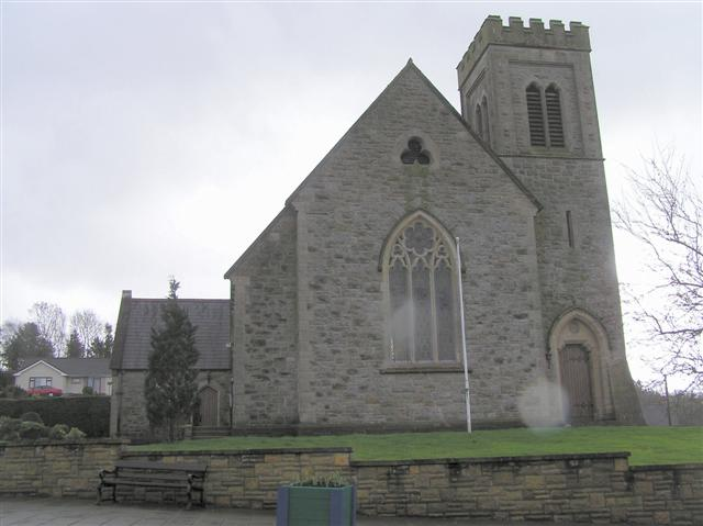 Ballinamallard Methodist Church It is located at the north side of the village.